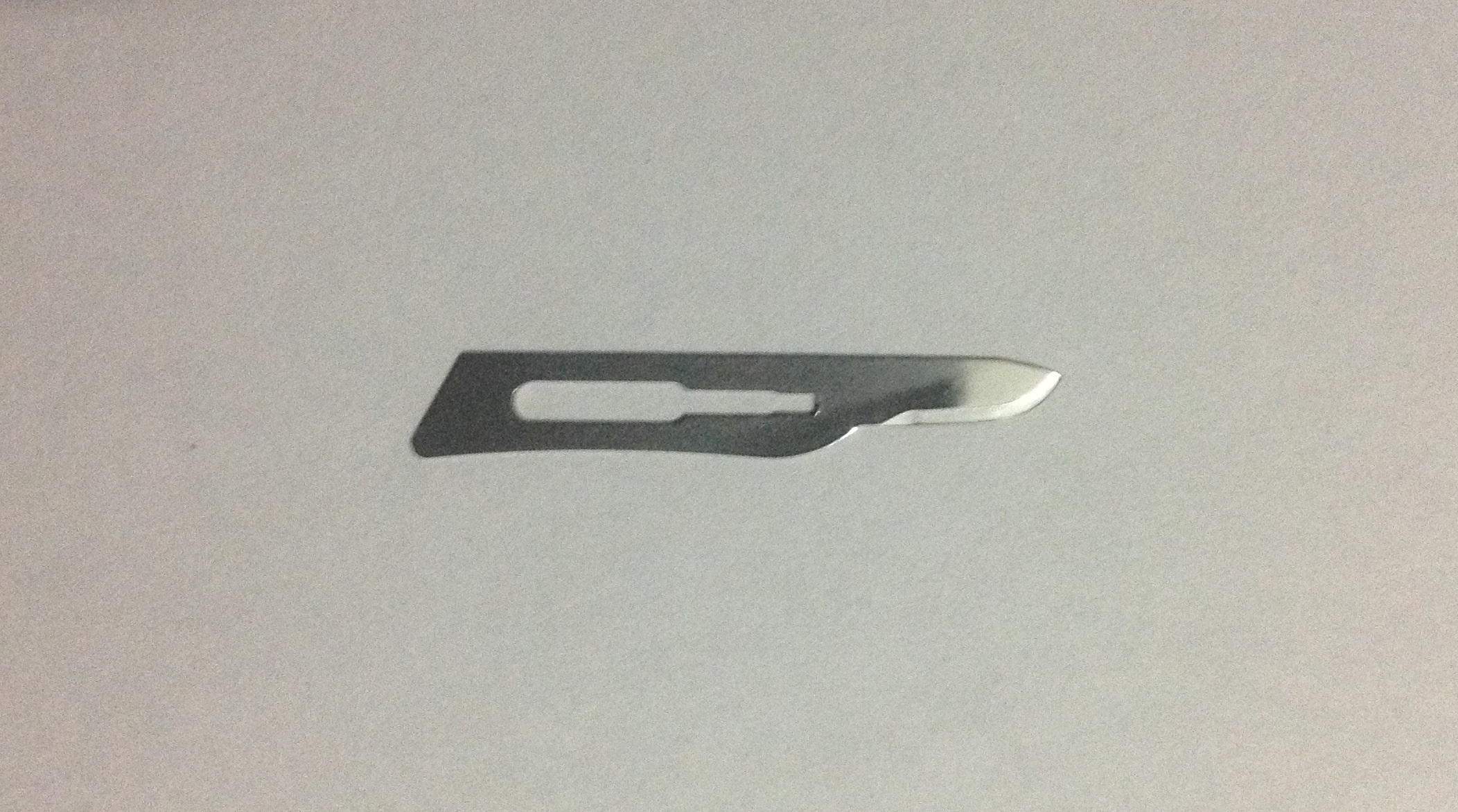 B Braun Disposable Surgical scalpel blade no. 15